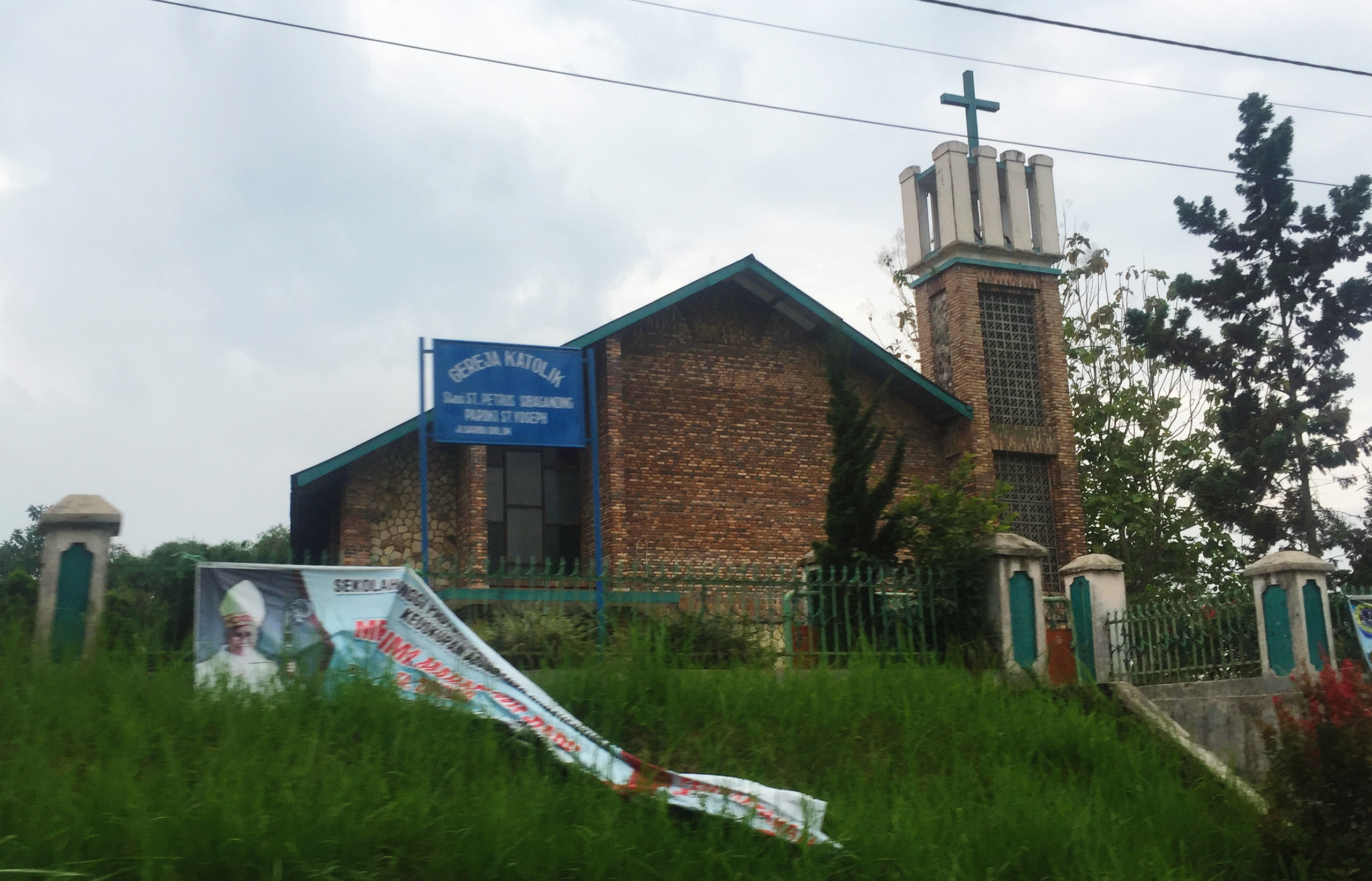 St. Petrus Sibaganding Catholic Church in Sibaganding, Panei, Simalungun